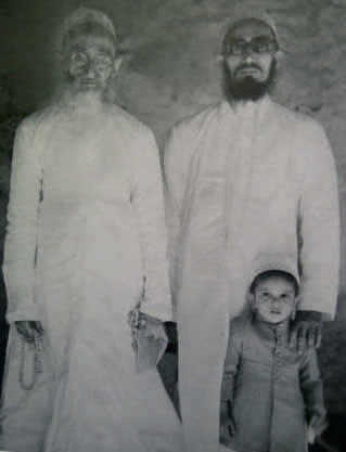 A photo of three Dai al-Mutlaq together: Syedna Taher, Syedna Mohammed, and Syedna Aali Qadr Mufaddal